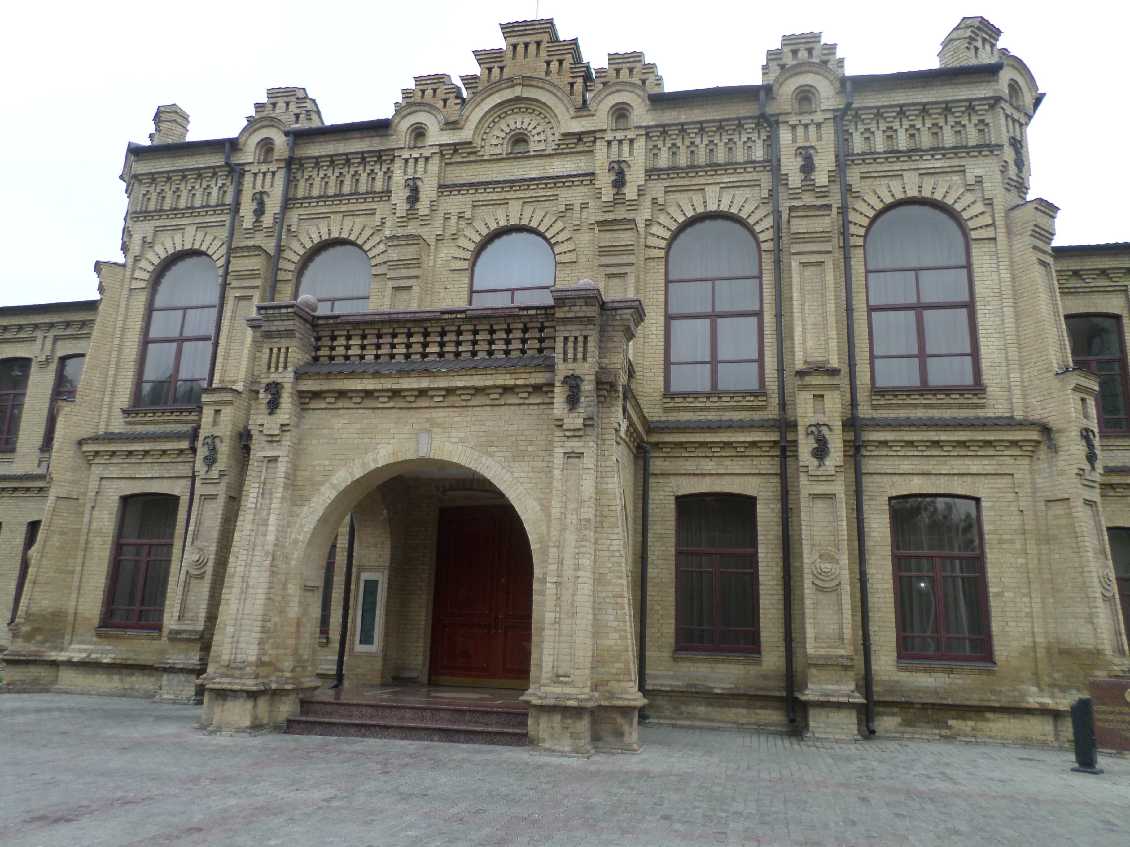 Real school